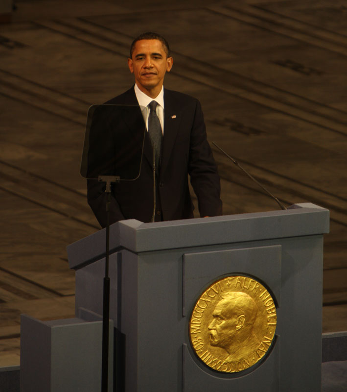 United States President Barack Obama at the 2009 Nobel Peace Prize ceremony in Oslo.